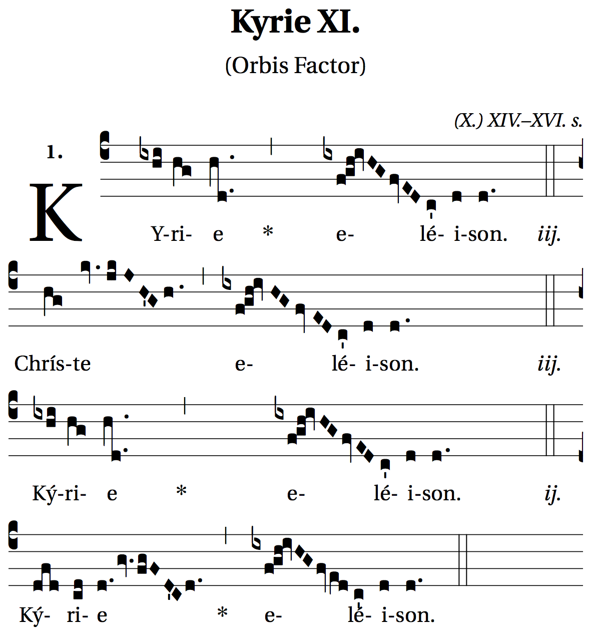 Setting of the Kyrie (from the Ordinary of the Mass) as found in Liber usualis.